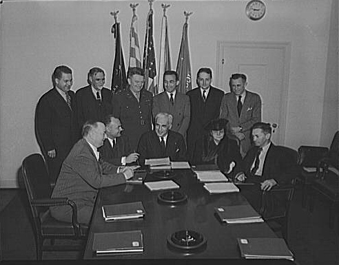 Paul V. McNutt, chairman of the War Manpower Commission, calls the first meeting of the Commission on 6 May 1942. The committee members seated from left to right are: Donald M. Nelson, War Production Board; Claude R. Wickard, Agriculture Department; Paul V. McNutt, Federal Security Agency; Francis Perkins, Labor Department. Members shown standing are not identified.